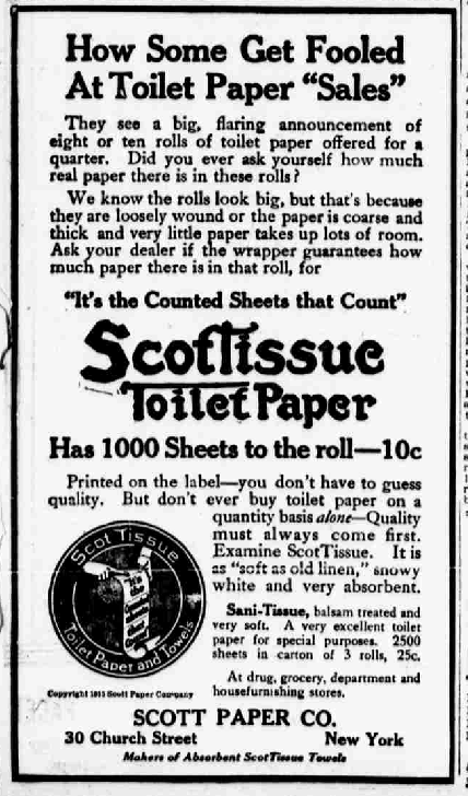 Scott Tissue toilet paper ad from 1915.